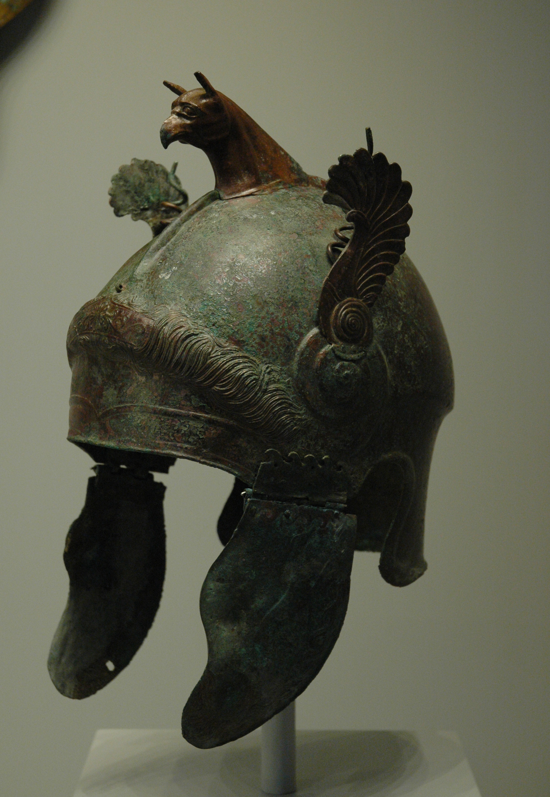 The elaborate decoration on this ancient Greek helmet suggests that it was strictly ceremonial and not intended to be worn into battle. Bronze, South Italy, 350–300 BC.